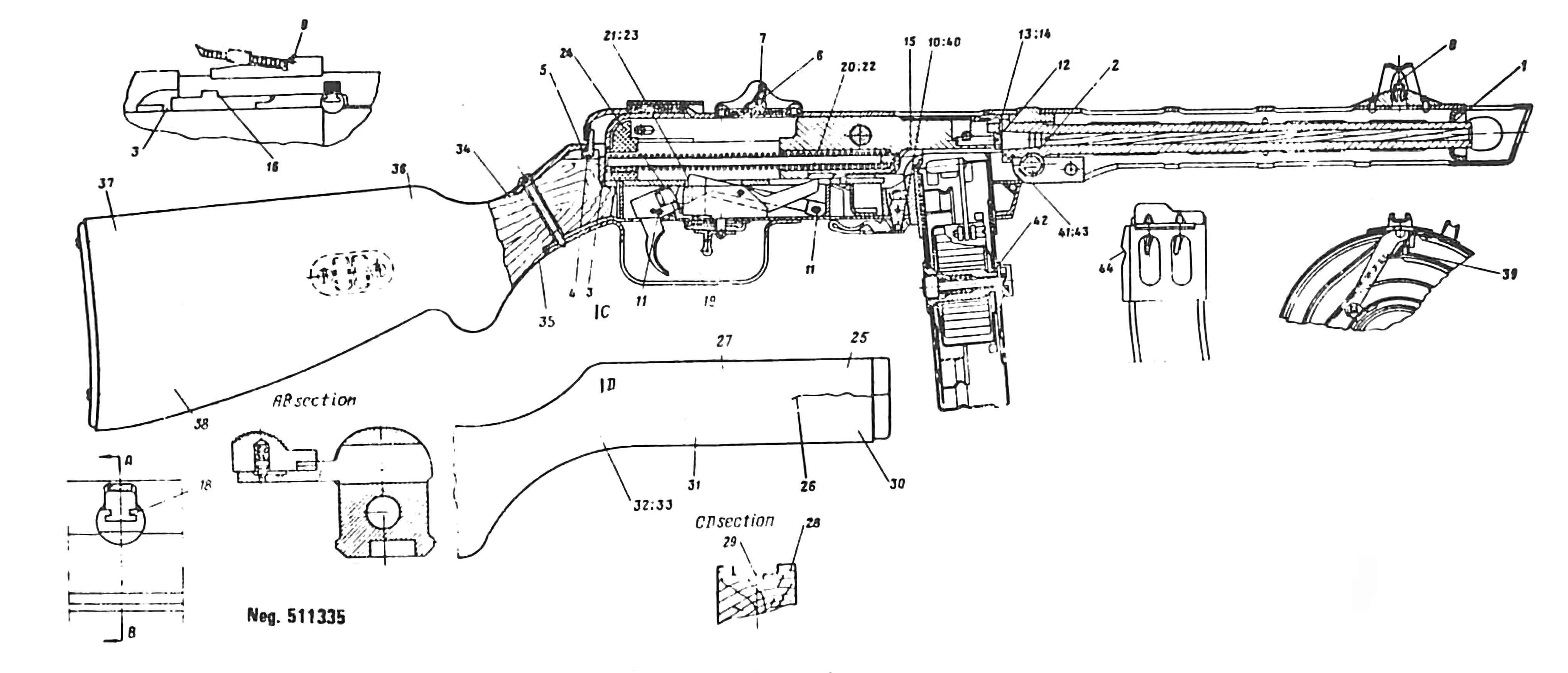 PPSh-41